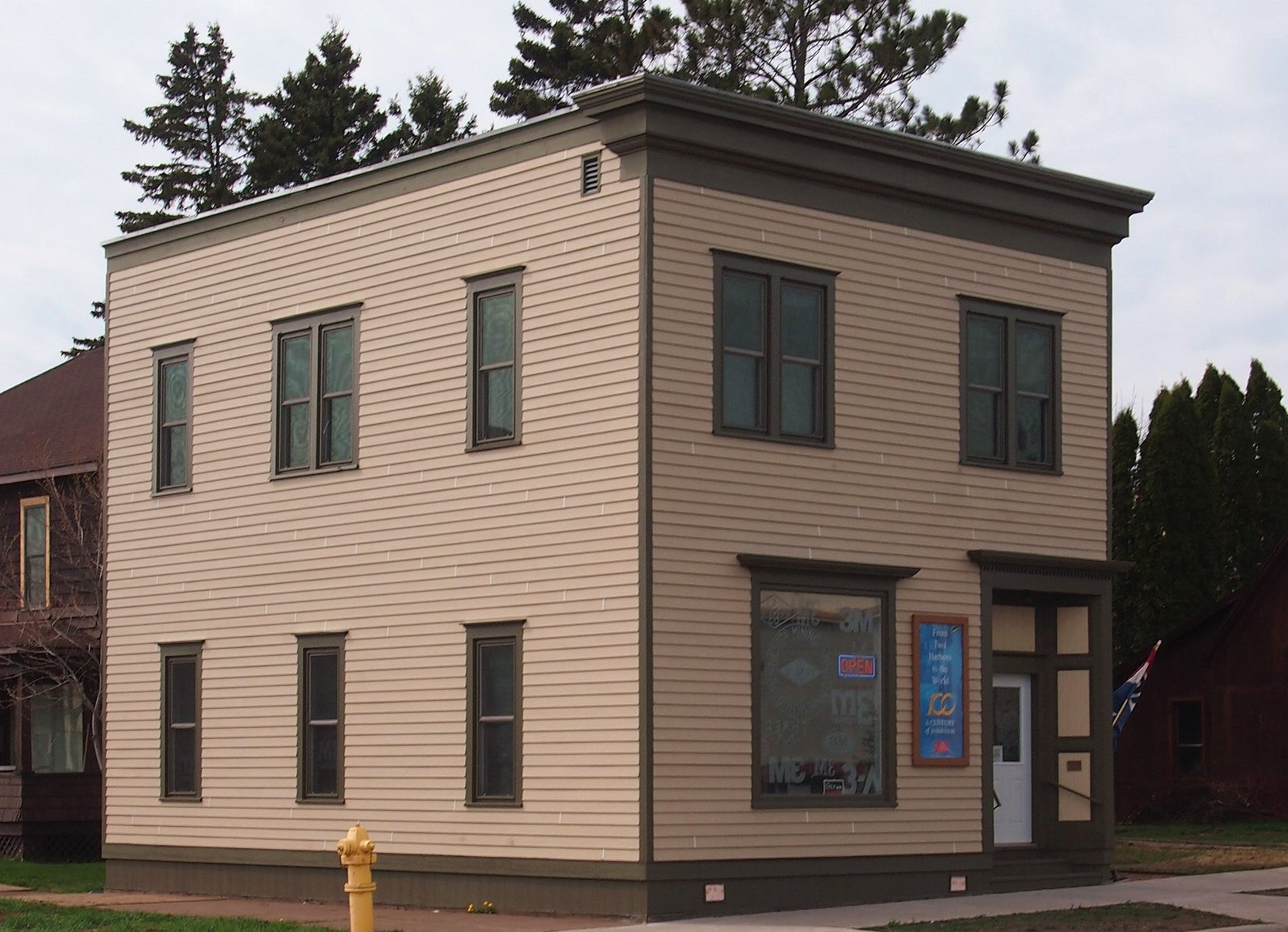 3M Museum (formerly the John Dwan Office Building), 201 Waterfront Dr, Two Harbors, Minnesota, USA. Viewed from the southeast.